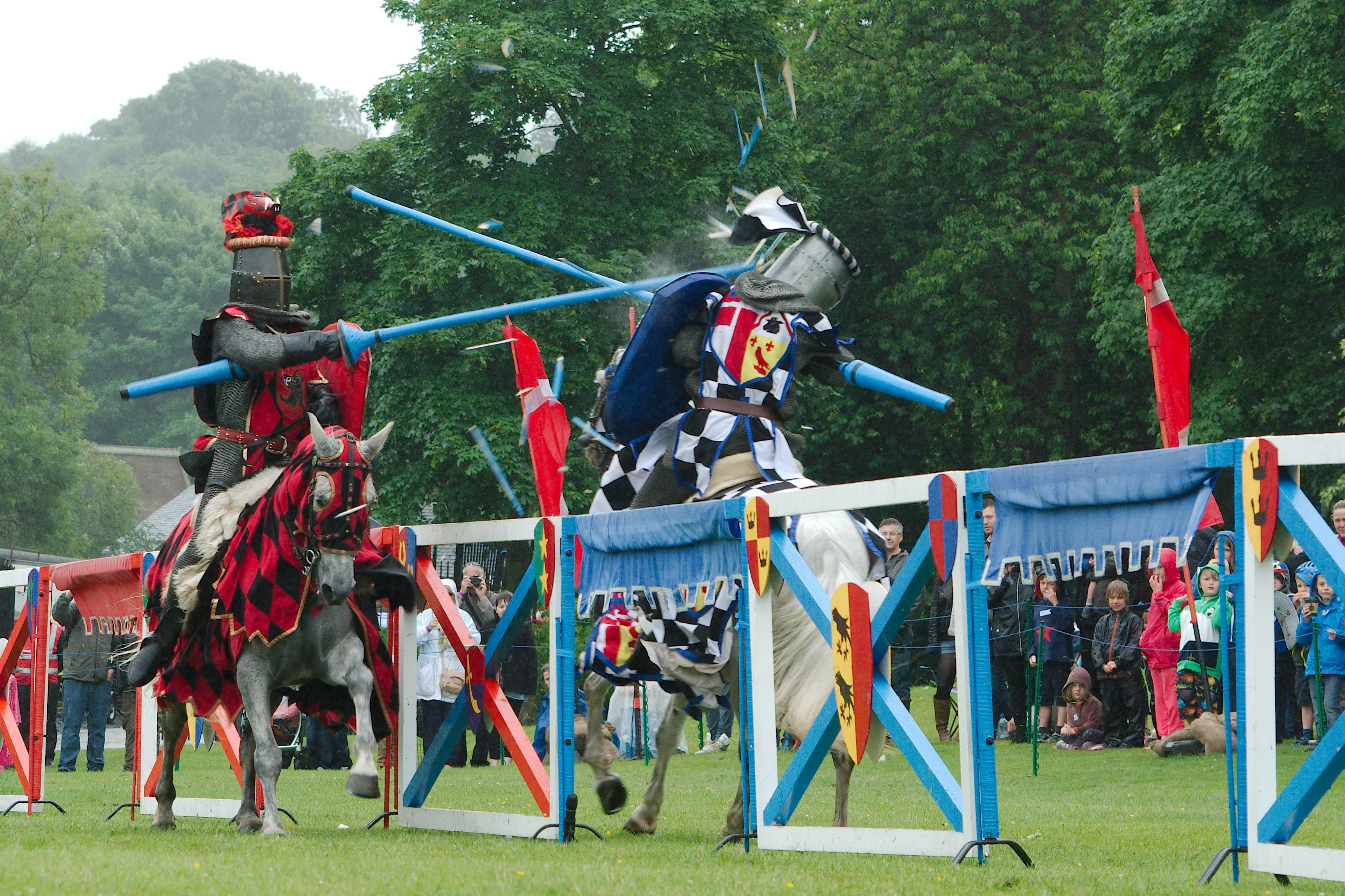 Spectacular Jousting, 2013